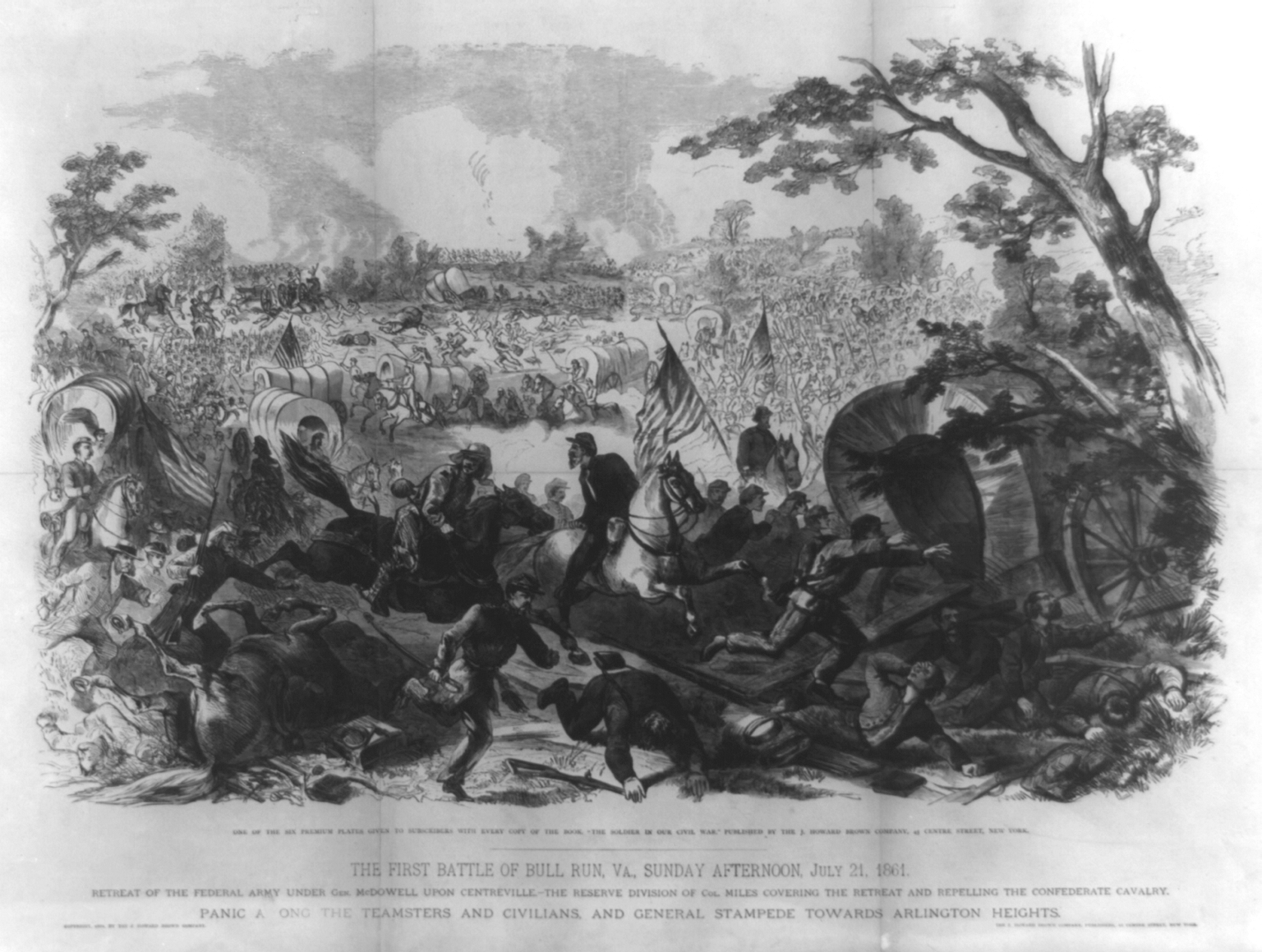 TITLE: The first Battle of Bull Run, Va., Sunday afternoon, July 21, 1861 CALL NUMBER: PGA - Brown, J.--First Battle of Bull... (D size) [P&P] REPRODUCTION NUMBER: LC-USZ62-8376 (b&w film copy neg.) No known restrictions on publication. MEDIUM: 1 print. CREATED/PUBLISHED: [no date recorded on shelflist card] NOTES: This record contains unverified data from PGA shelflist card. Associated name on shelflist card: Brown, J. REPOSITORY: Library of Congress Prints and Photographs Division Washington, D.C. 20540 USA DIGITAL ID: (b&w film copy neg.) cph 3a10984 CARD #: 2003681590